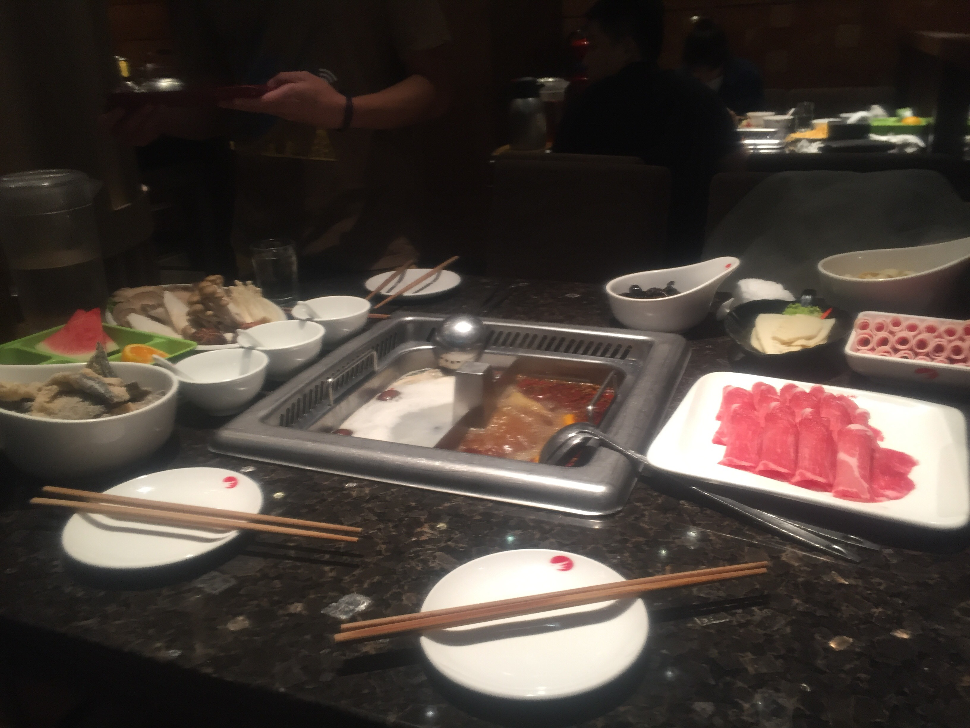 Spread at Hai Di Lao